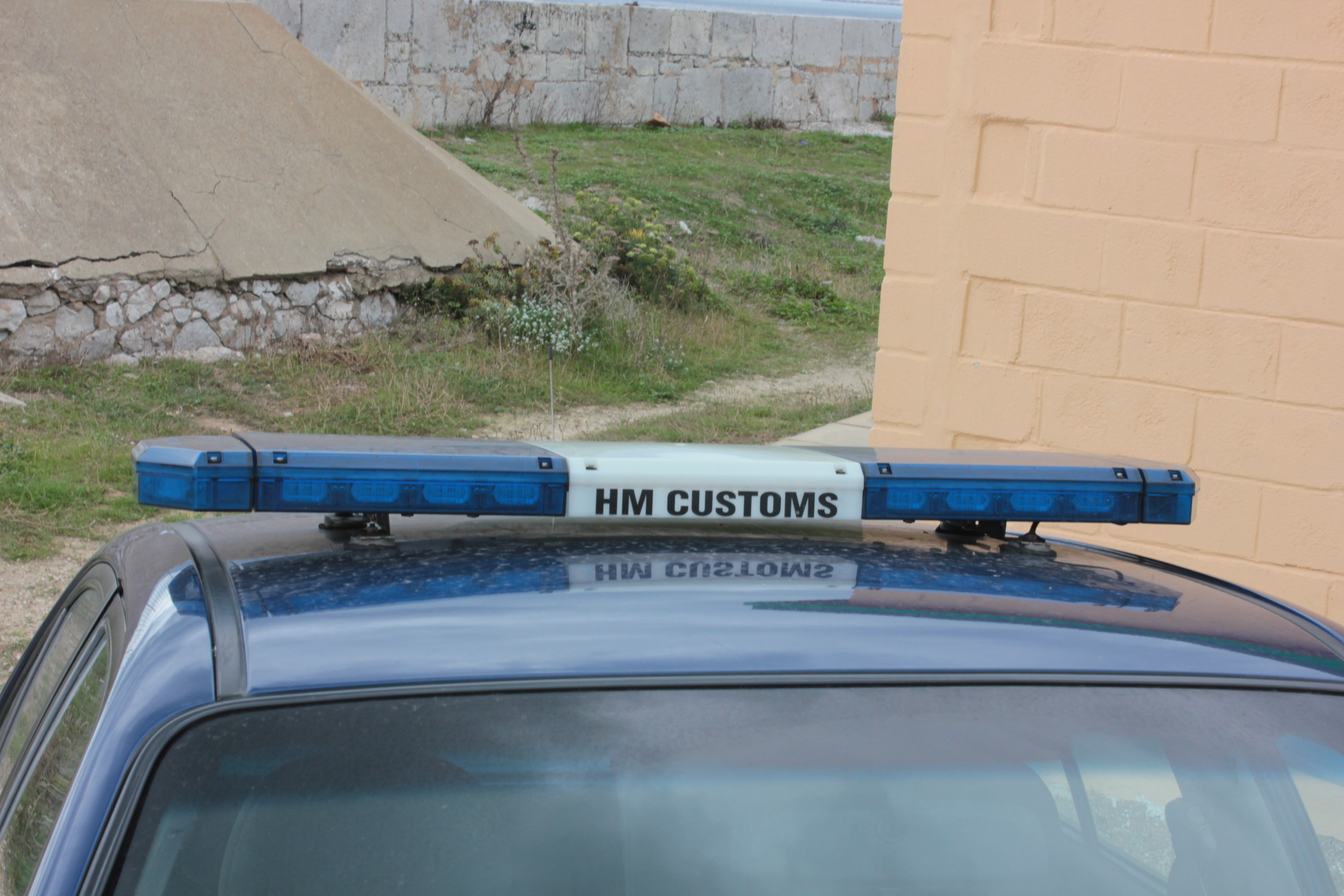 Front view of a Redtronic Mega Flash blue light bar on a vehicle belonging to HM Customs, Gibraltar